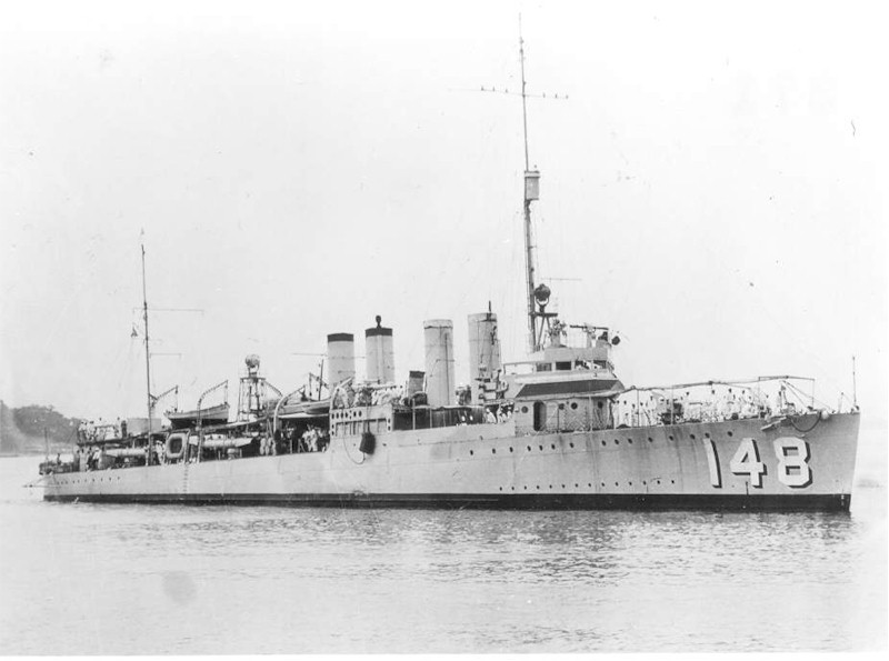 The U.S. Navy destroyer USS Breckinridge (DD-148), circa in the late 1930s.